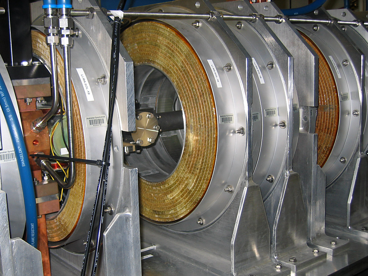 RF Cavities in the linac working as bunchers at the Australian Synchrotron, Clayton, Victoria.